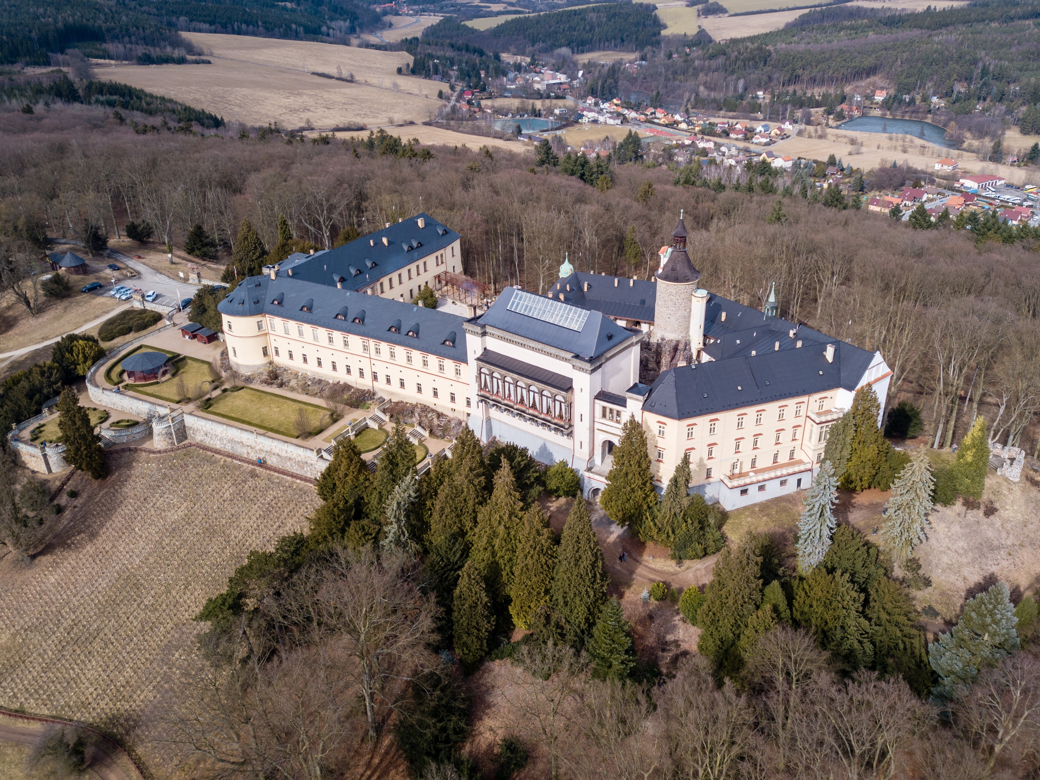 Chateau Zbiroh